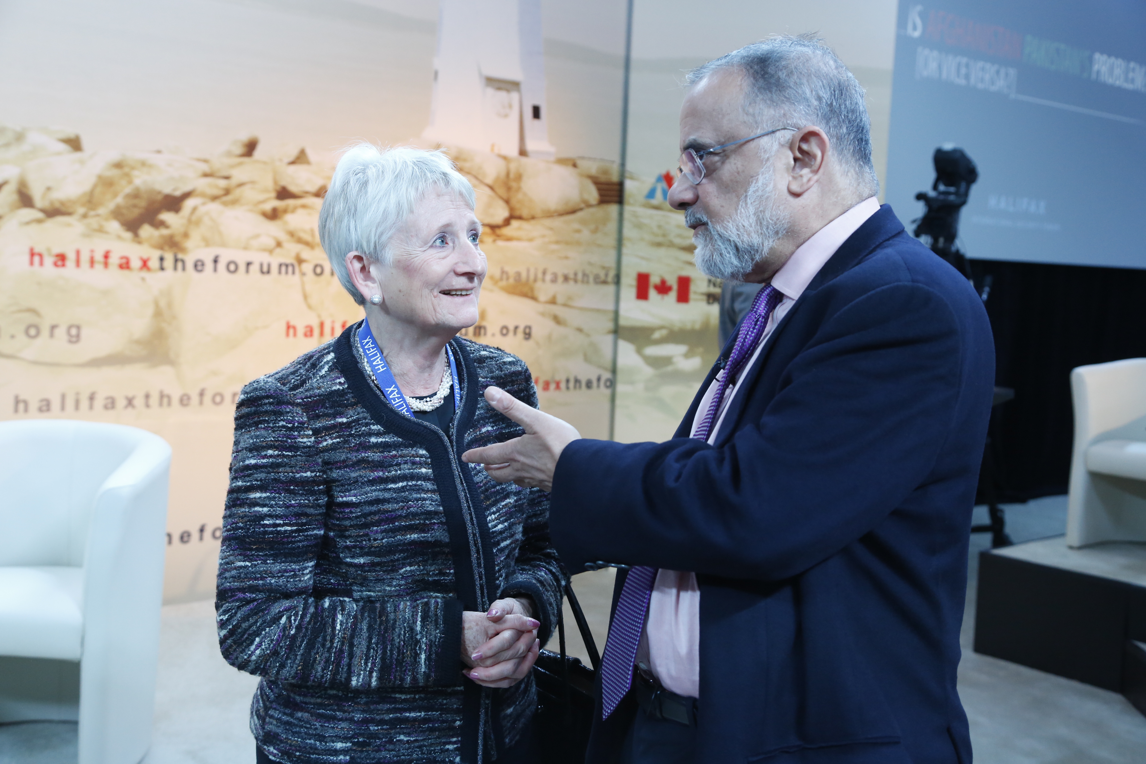 Baroness Pauline Neville-Jones and Ahmed Rashid speak after a panel at the 2012 Halifax International Security Forum